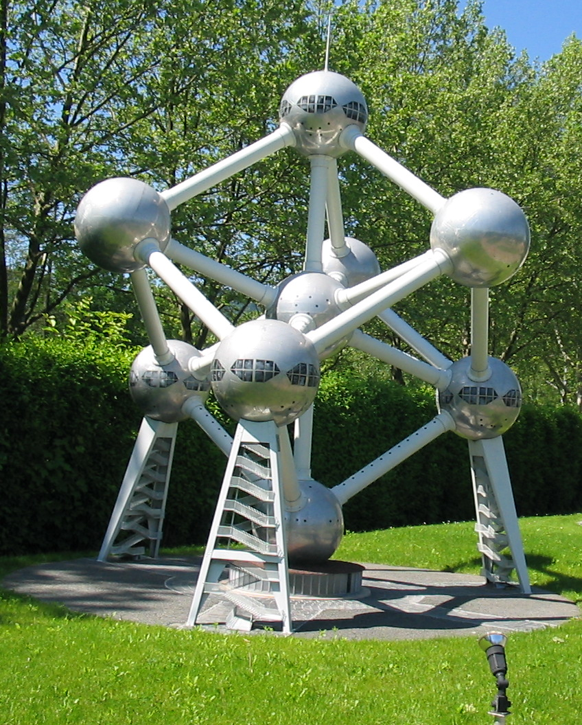 Atomium model at Minimundus Klagenfurt